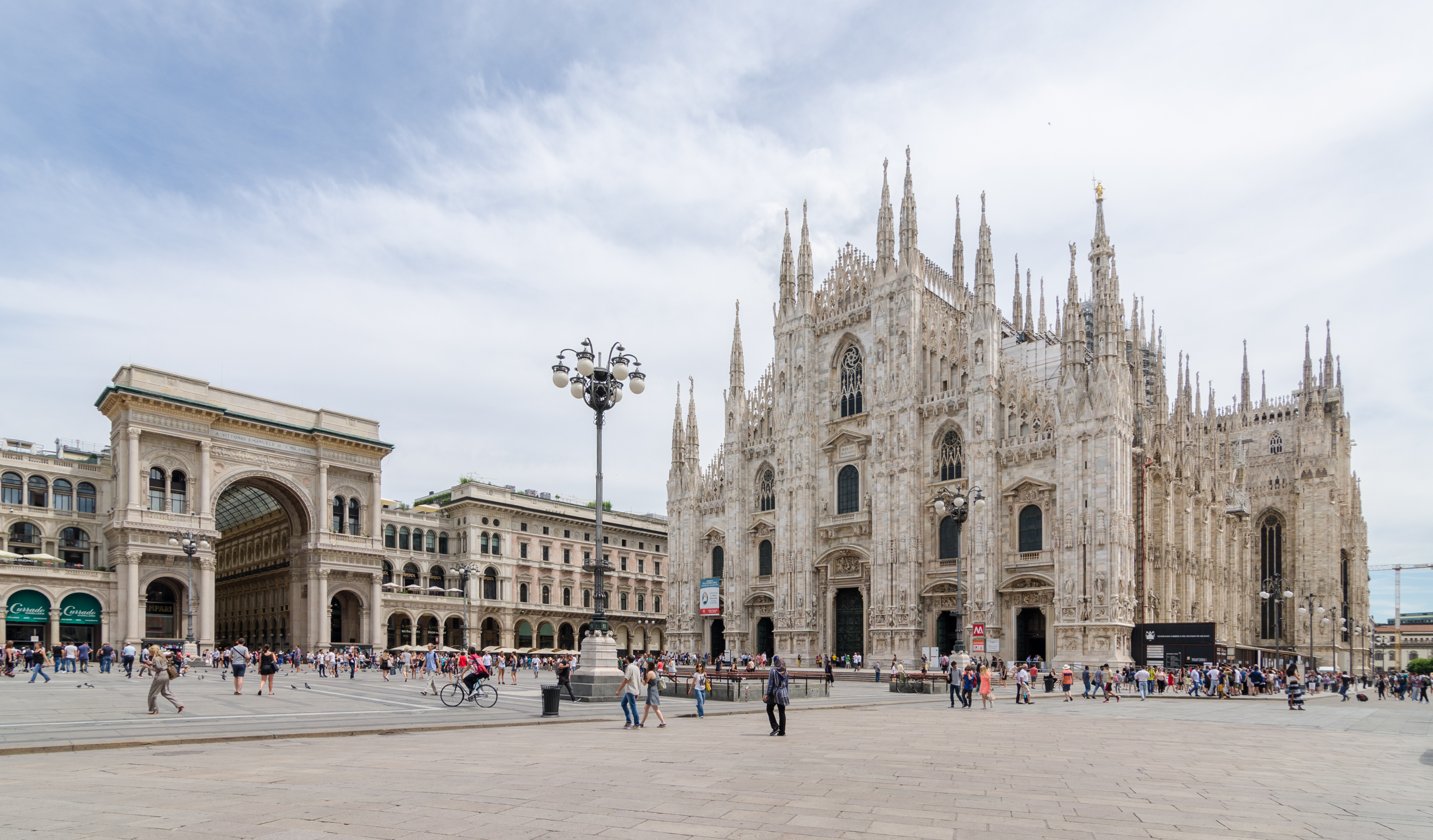 Milan (Lombardy, Italy) – Milan Cathedral – view from the southwest over the Piazza del Duomo (Cathedral Square) with the triumphal arch of the historic shopping mall Galleria Vittorio Emanuele II